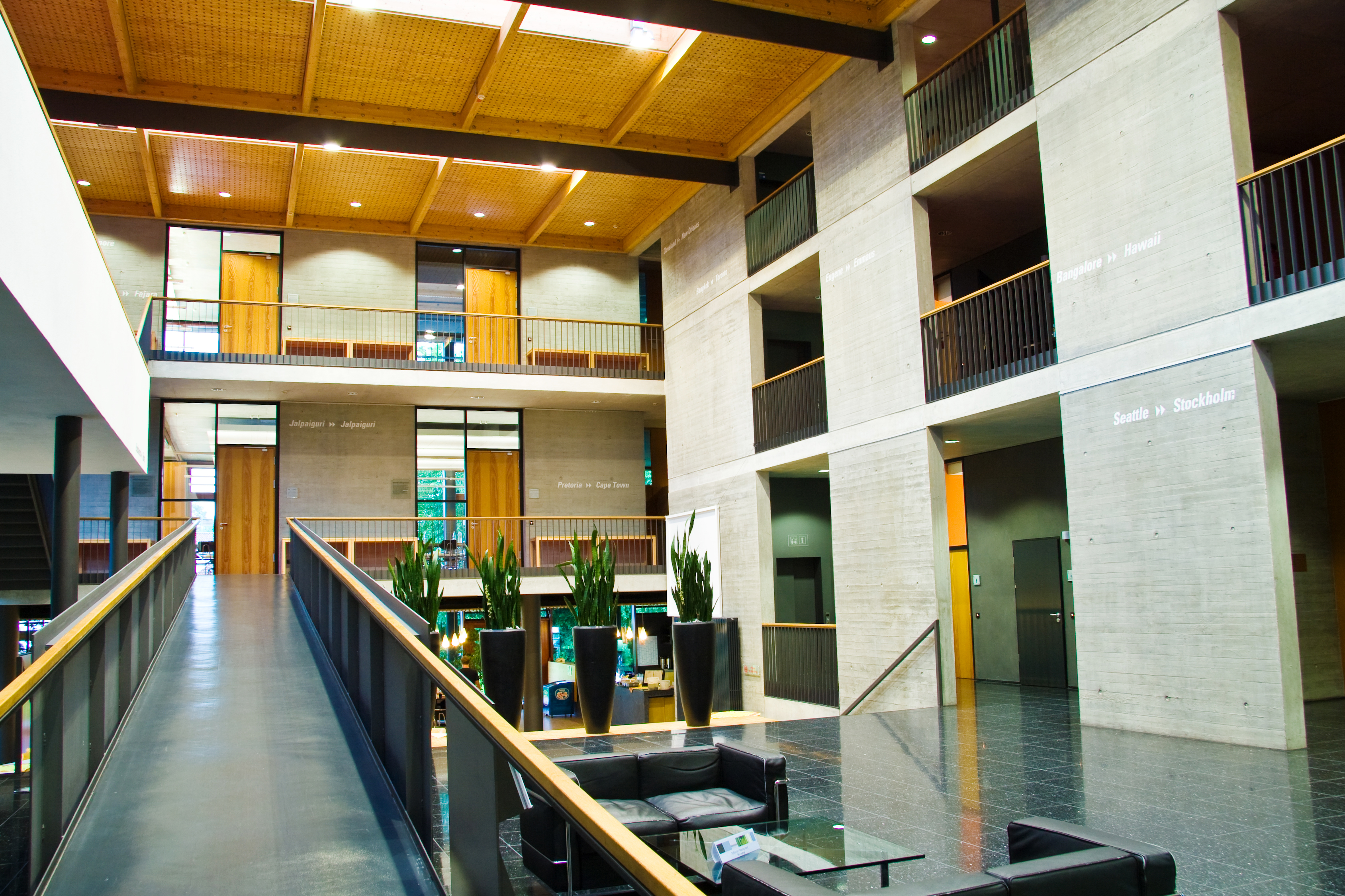 The Atrium of the main building